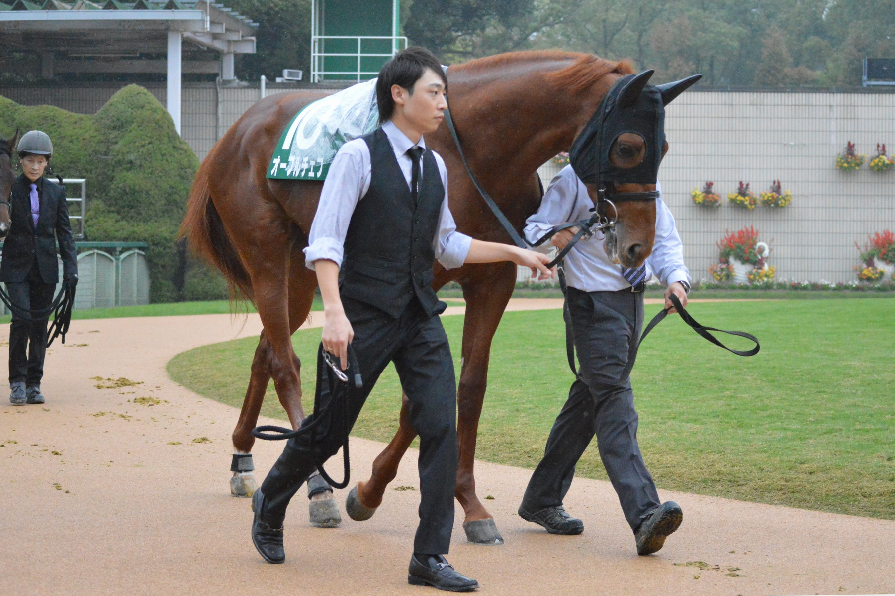 Japanese race horse Incantation at Kyoto racecourse. Kyoto (JPN) 03 Nov 2013Miyako Stakes (Grade 3) (Dirt) (3yo+) 1m1f Standard RankHorse NameOddsAgeWgtTrainerJockey1stBrightline (JPN)16/5C48-11Ippo SameshimaYuichi Fukunaga2ndIncantation (JPN)156/10C38-9Tomohiko HatsukiTakuya Ono3rdRoman Legend (JPN)5/2FH59-4Hideaki FujiwaraYasunari Iwata4th - 10th/omission11thObruchev (USA)183/1C48-11Kiyoshi HagiwaraSuguru Hamanaka